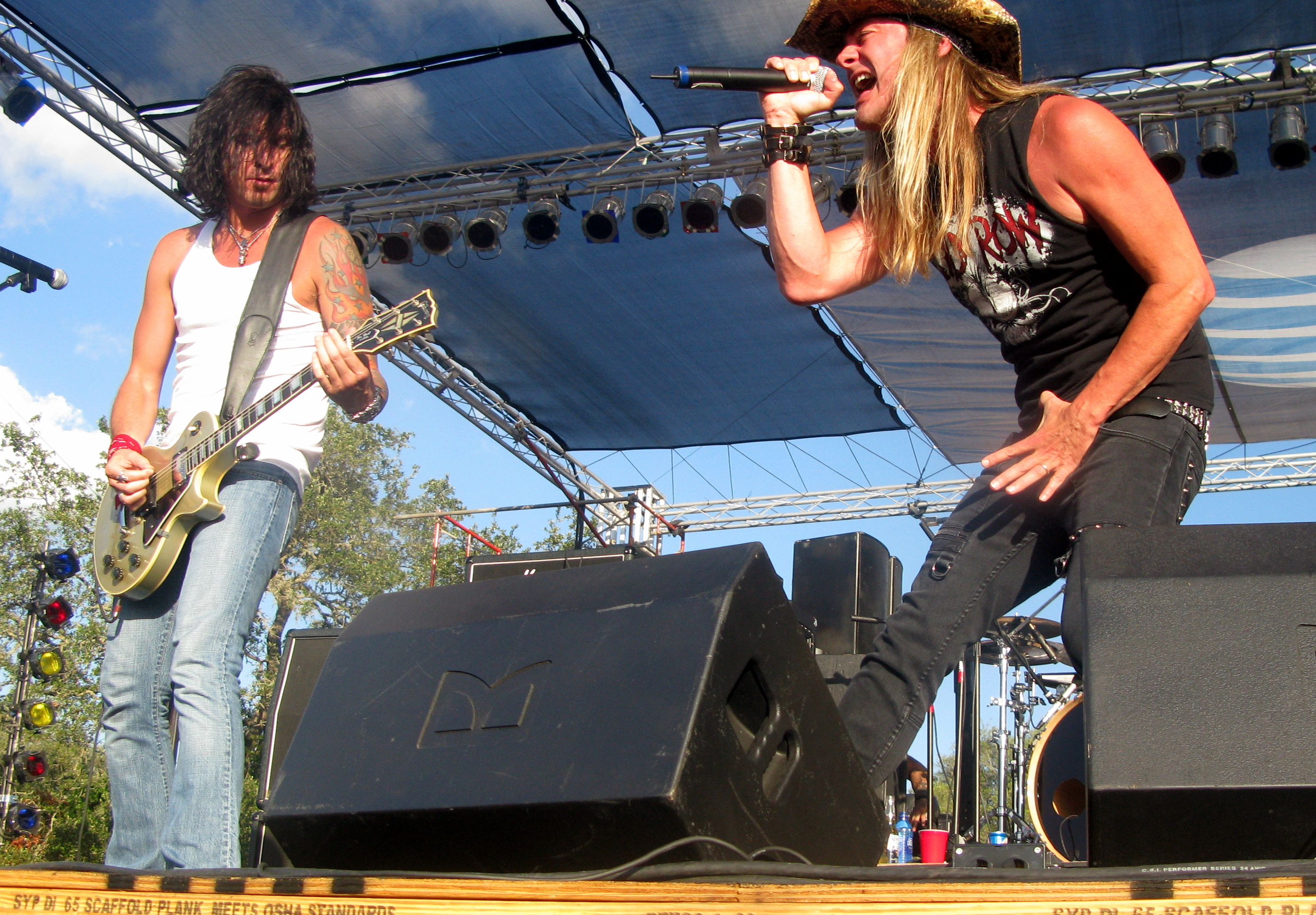 Photo of singer Johnny Solinger, performing live at the South Texas Rockfest on July 11, 2008. en: Uploaded to flickr by Tawny Rockerazzi under the Creative Commons Attribution-Share Alike 2.0 Generic license.